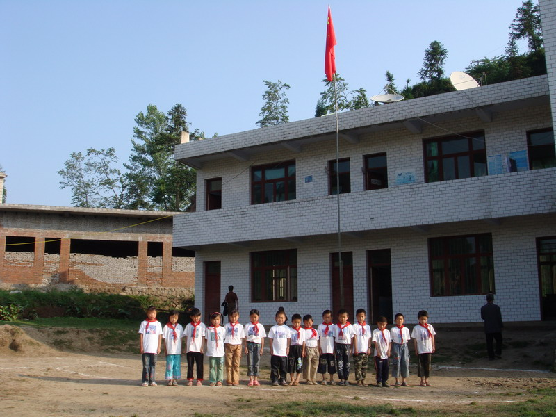 A charity primary school in Zhijin County, Guizhou province, China